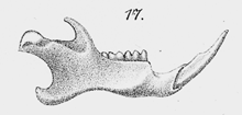 This picture is extracted from "Leche 1886 plate 16.png"; fig. 17. It shows the lower jaw of the Thaptomys nigrita.